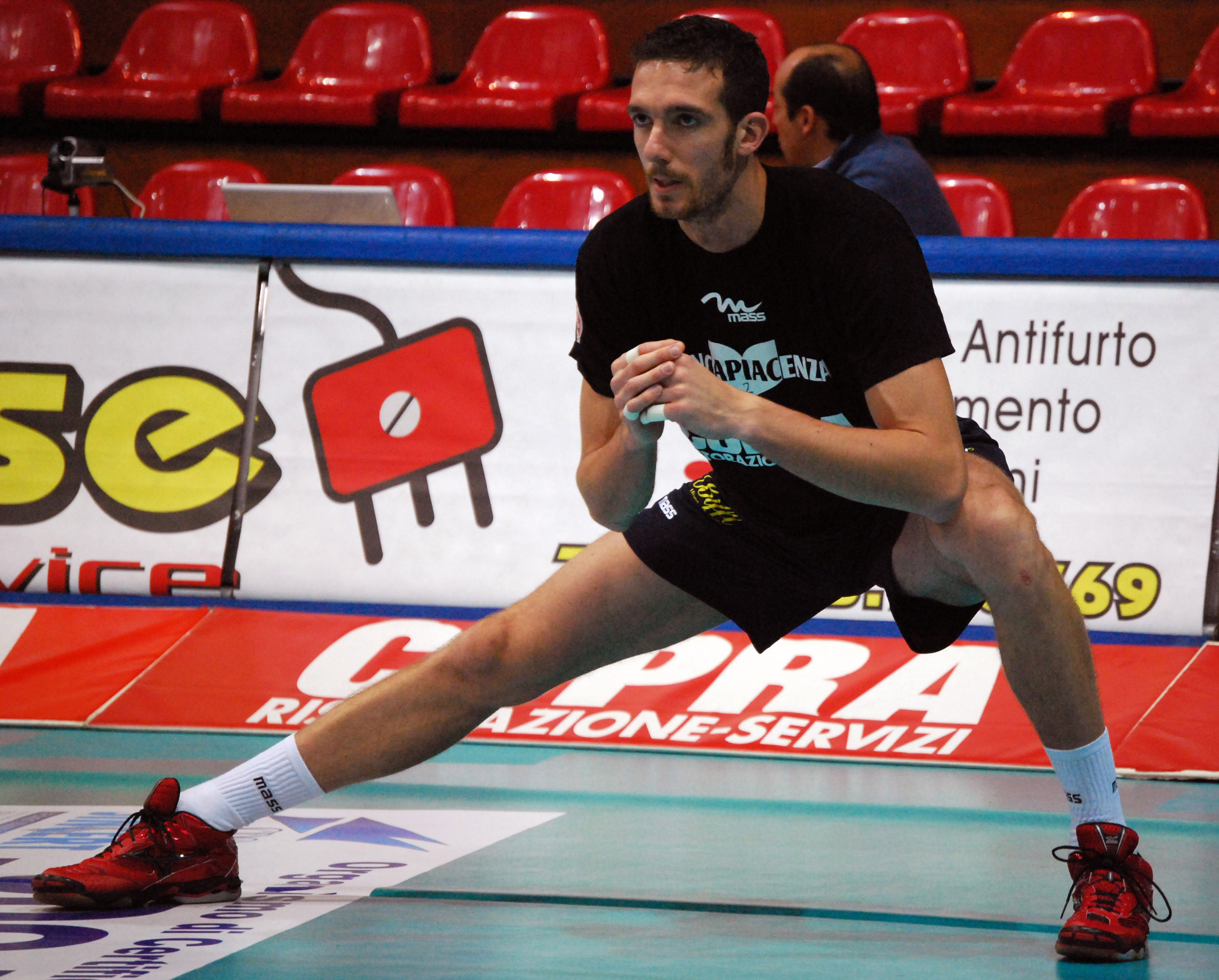 I took this pic during a volleyball match in Piacenza.